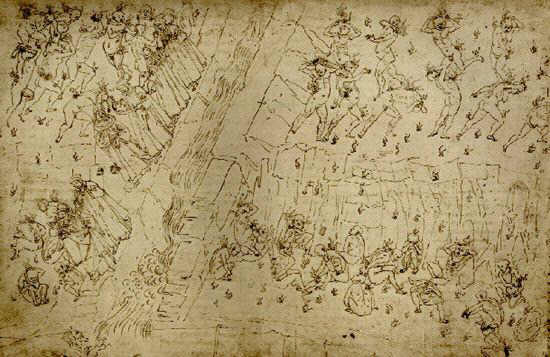 Sandro Botticelli's drawing for Dante's Inferno Canto XIV.